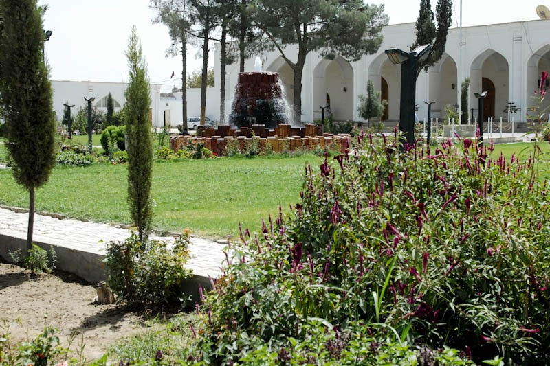 The Governor's compound in Kandahar, Afghanistan.